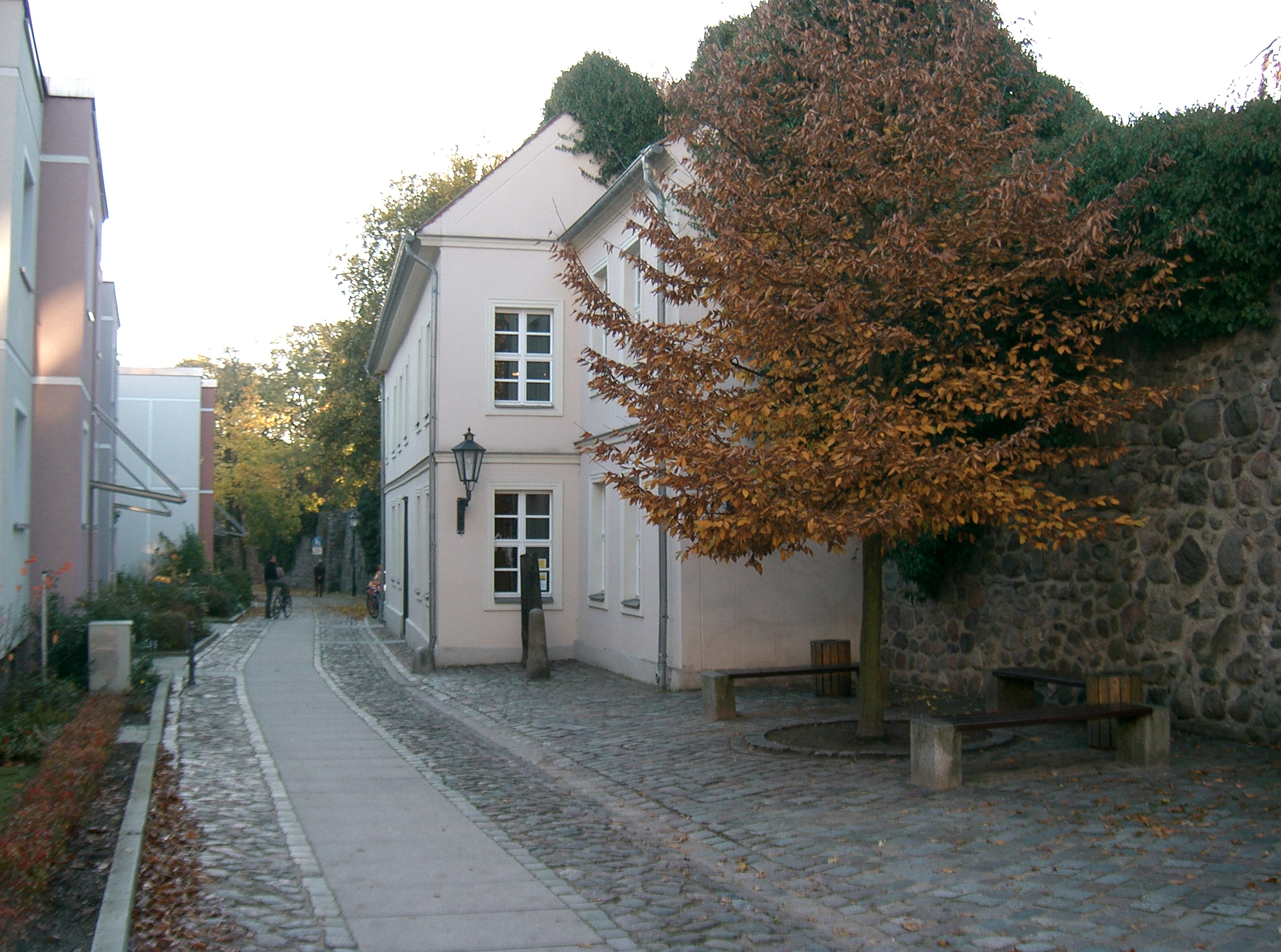 The executioners house at the defensive wall of the german city Bernau bei Berlin.